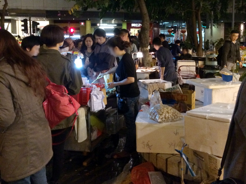 Wong Tai Sin Bus Terminus_Hawkers during Chinese New Year